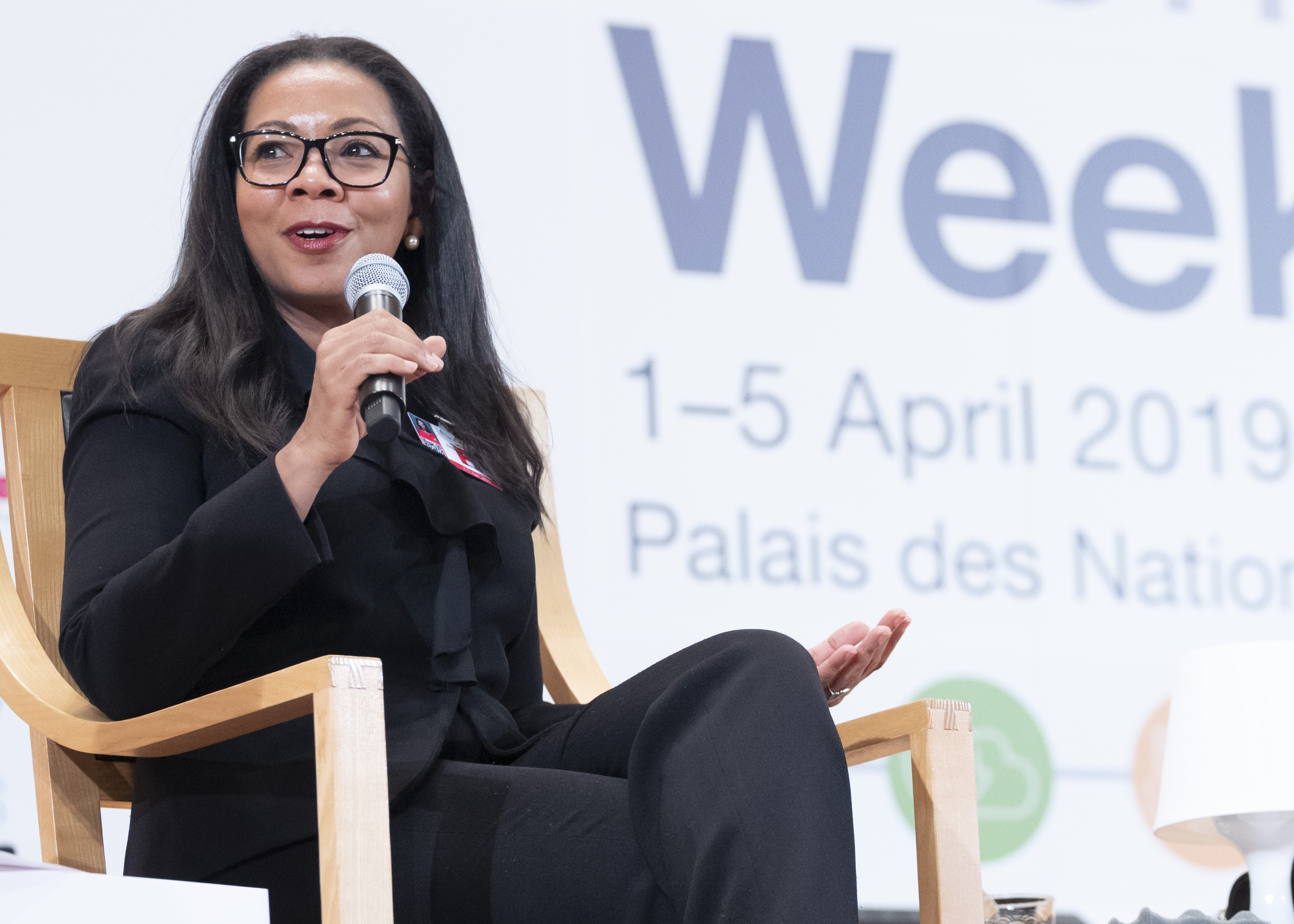 Rebecca Enonchong during High Level Dialogue from Digitilization to Development. 2 April 2019. UNCTAD Photo / Jean Marc Ferré